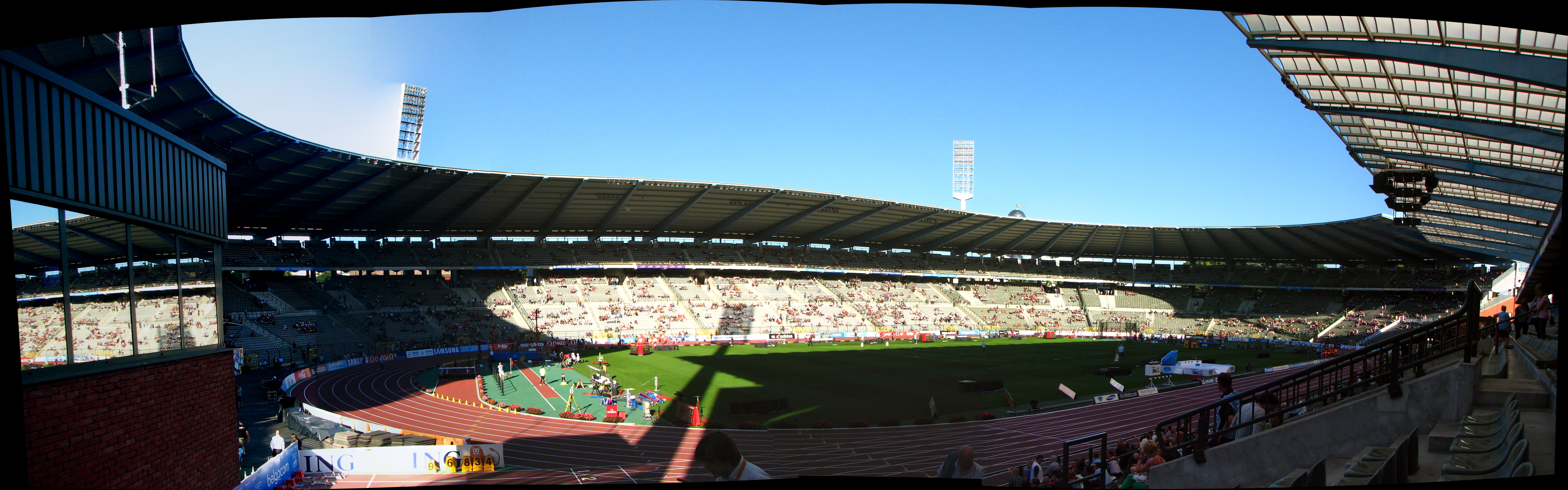 Memorial Vandamme 2012